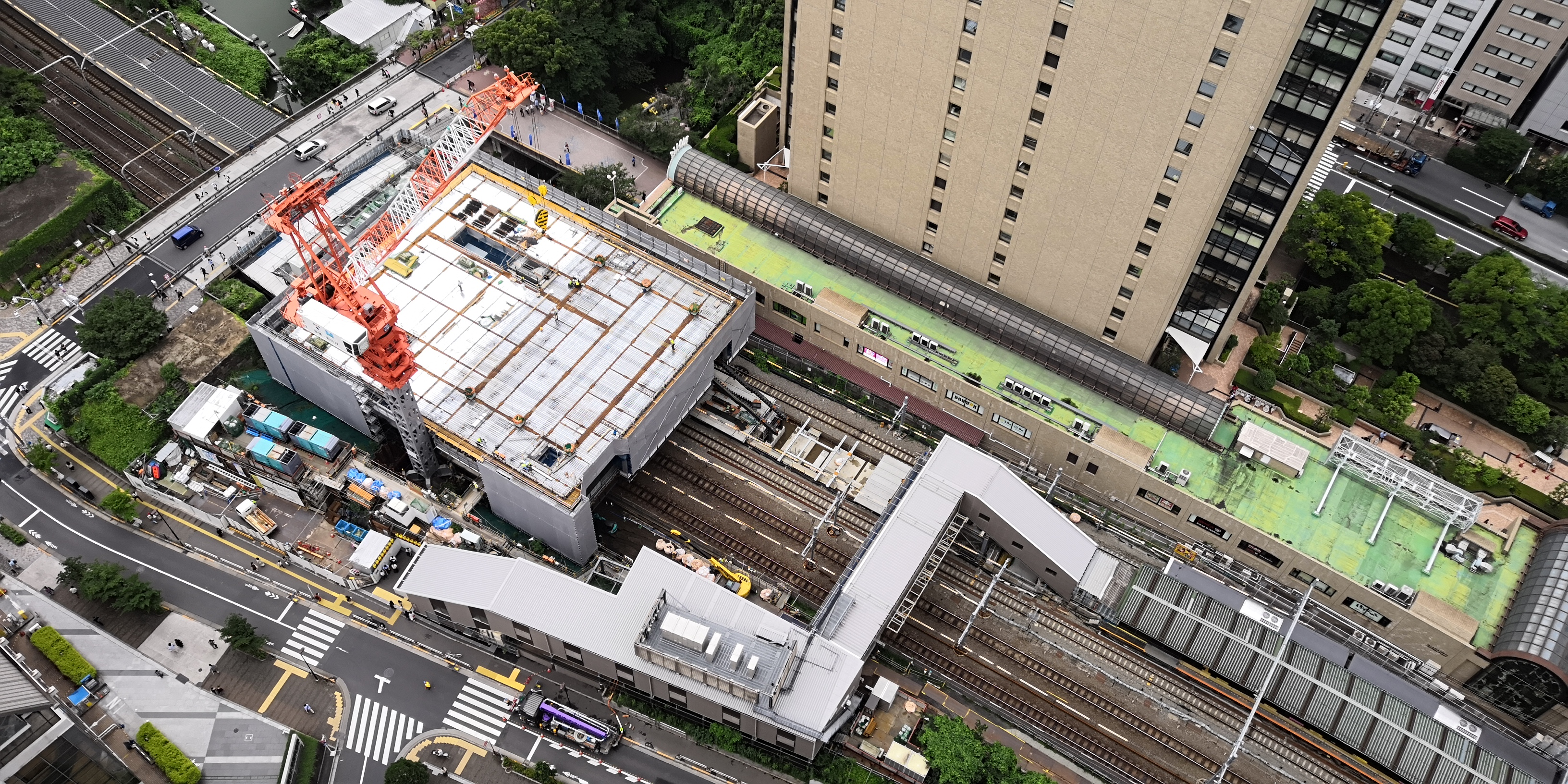 Iidabashi station (Chiyoda, Tokyo, Japan) under reconstruction in 2019, seen from above